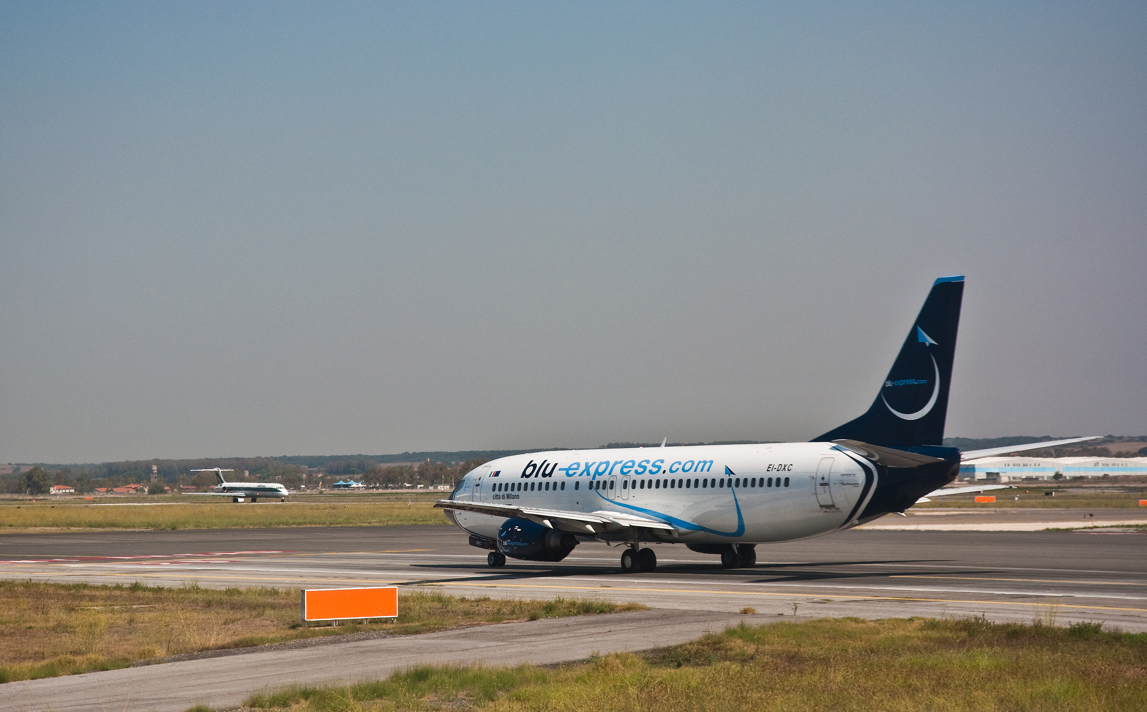 Boeing 737-300 EI-DXC of Blu-express in Rome Fiumicino Airport, Italy (September 2011).